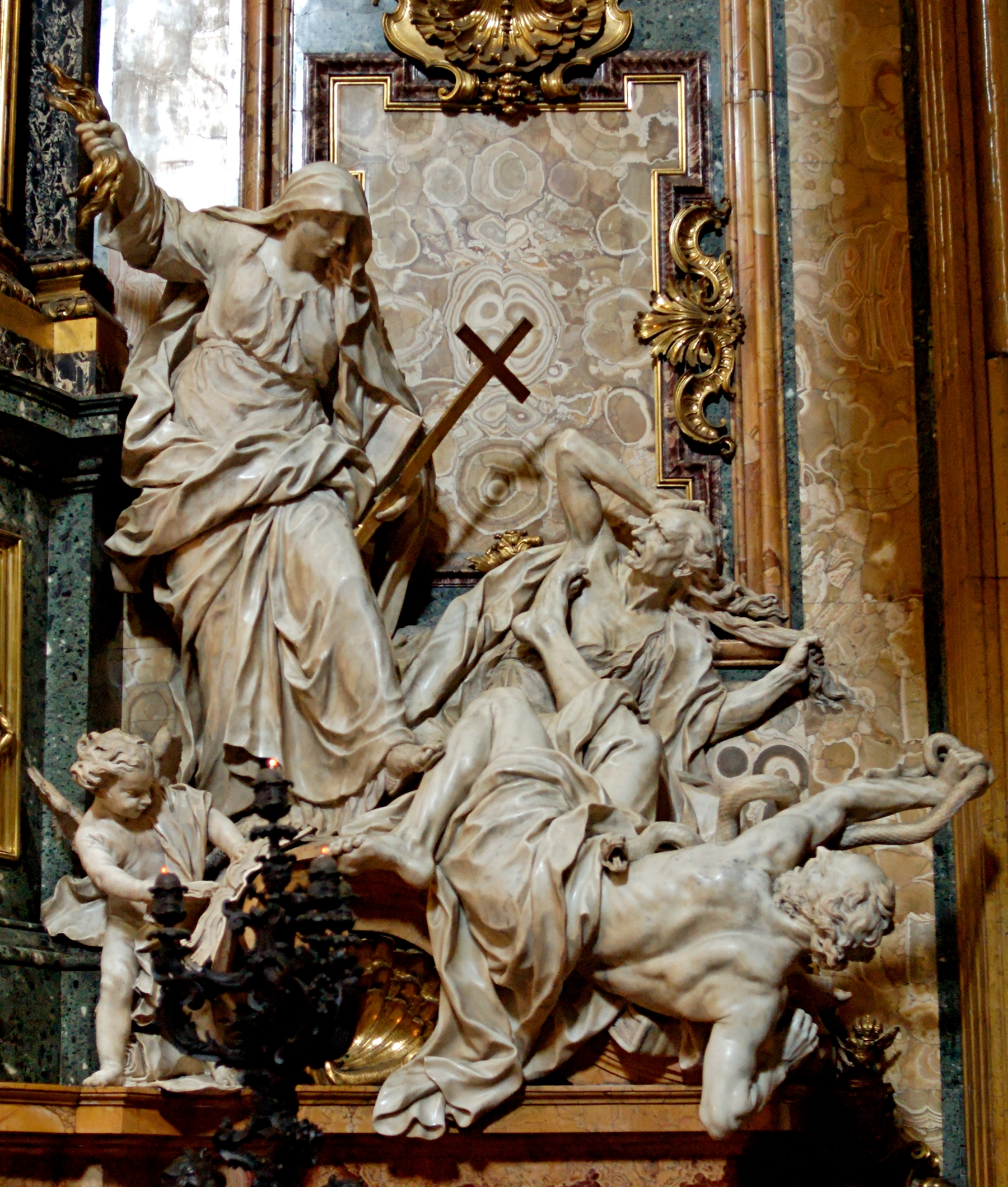 Religion Overthrowing Heresy and Hatred, by Pierre Legros the Younger (1695–1699). Marble, H. 3 m (9 ft. 10 in.). Church of the Gesù, Rome, Italy.